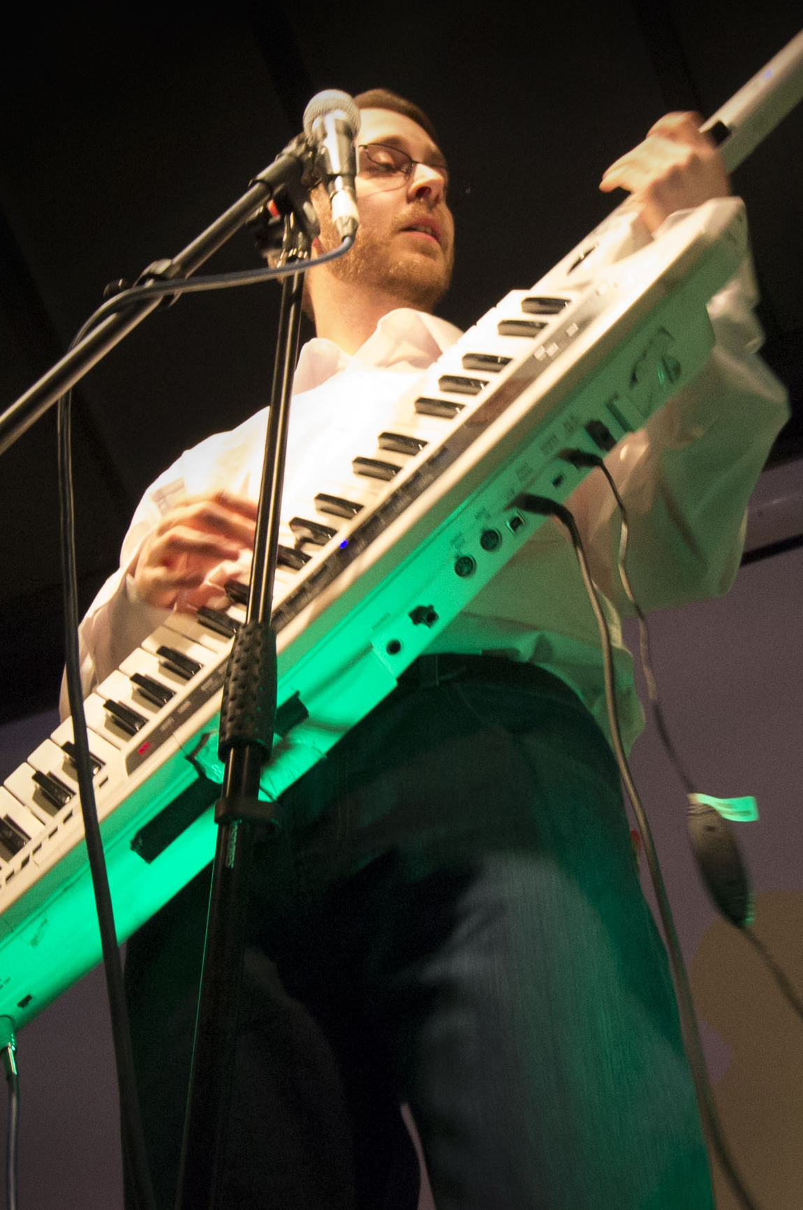 Brett Domino playing a Keytar live at The Invisible Dot - February 2016